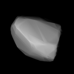 3D convex shape model of 2985 Shakespeare, computed using light curve inversion techniques. J. Hanuš, J. Ďurech, M. Brož, B. D. Warner (June 2011). "A study of asteroid pole-latitude distribution based on an extended set of shape models derived by the lightcurve inversion method". Astronomy and Astrophysics 530: A134. ISSN 0004-6361. arXiv